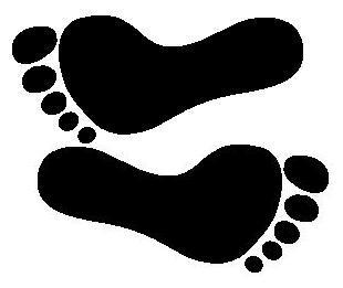 Fifth Position of the feet in Ballet